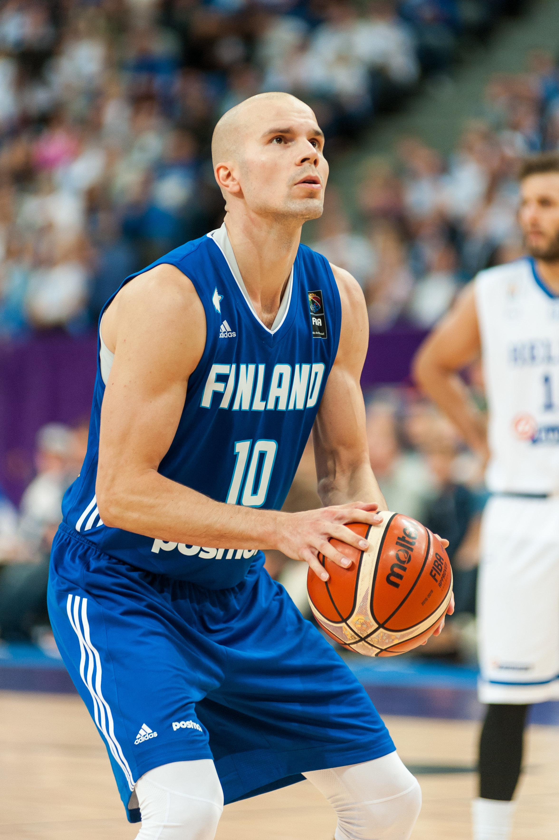 EuroBasket 2017 Group A game between Greece and Finland at Hartwall Arena in Helsinki, Finland.